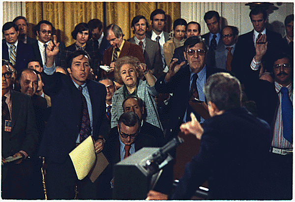 President Nixon at a press conference October 26, 1973